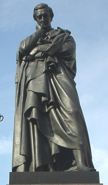 Photo taken by lonpicman